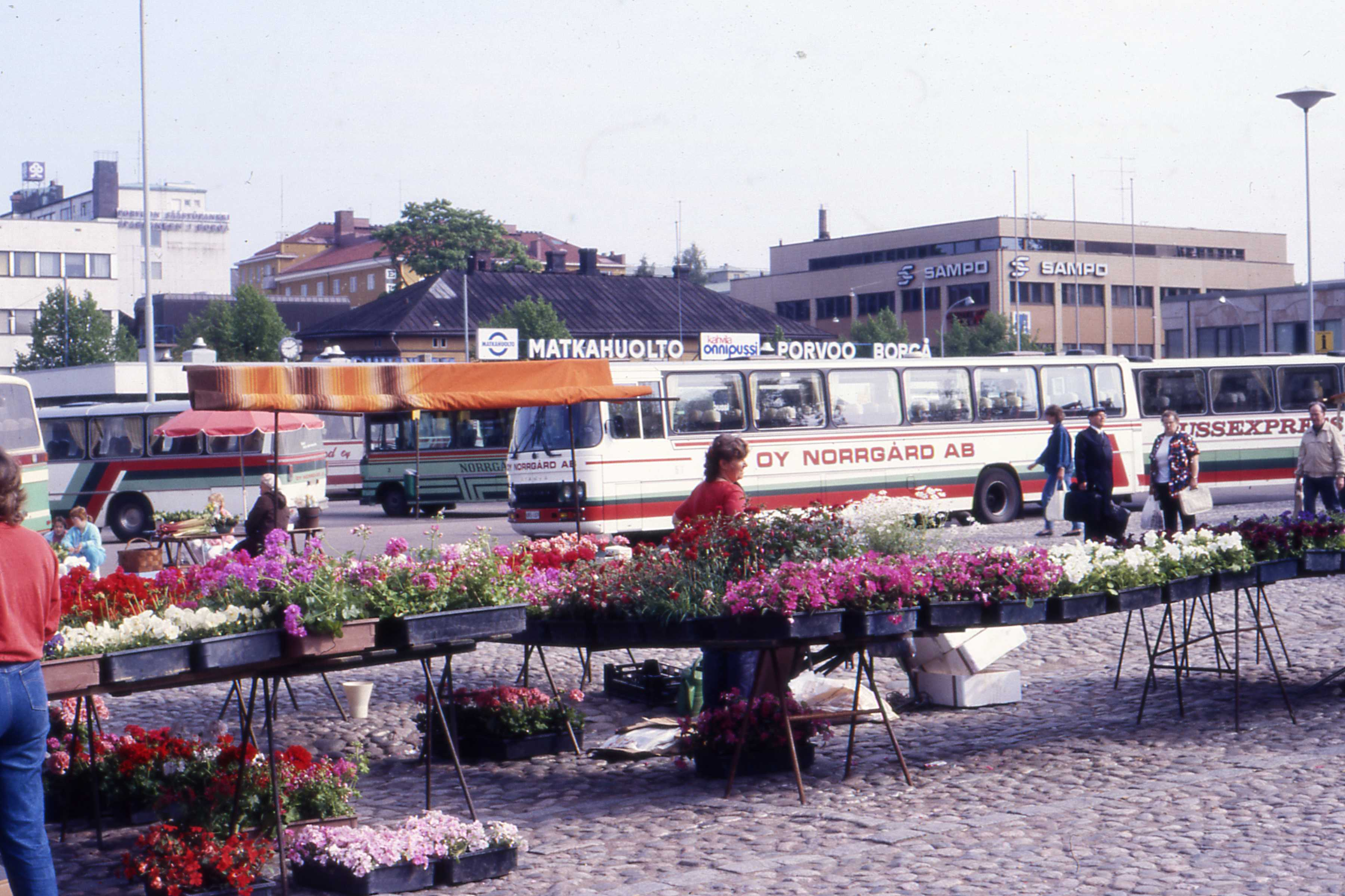 Porvoo bus station in 1987.